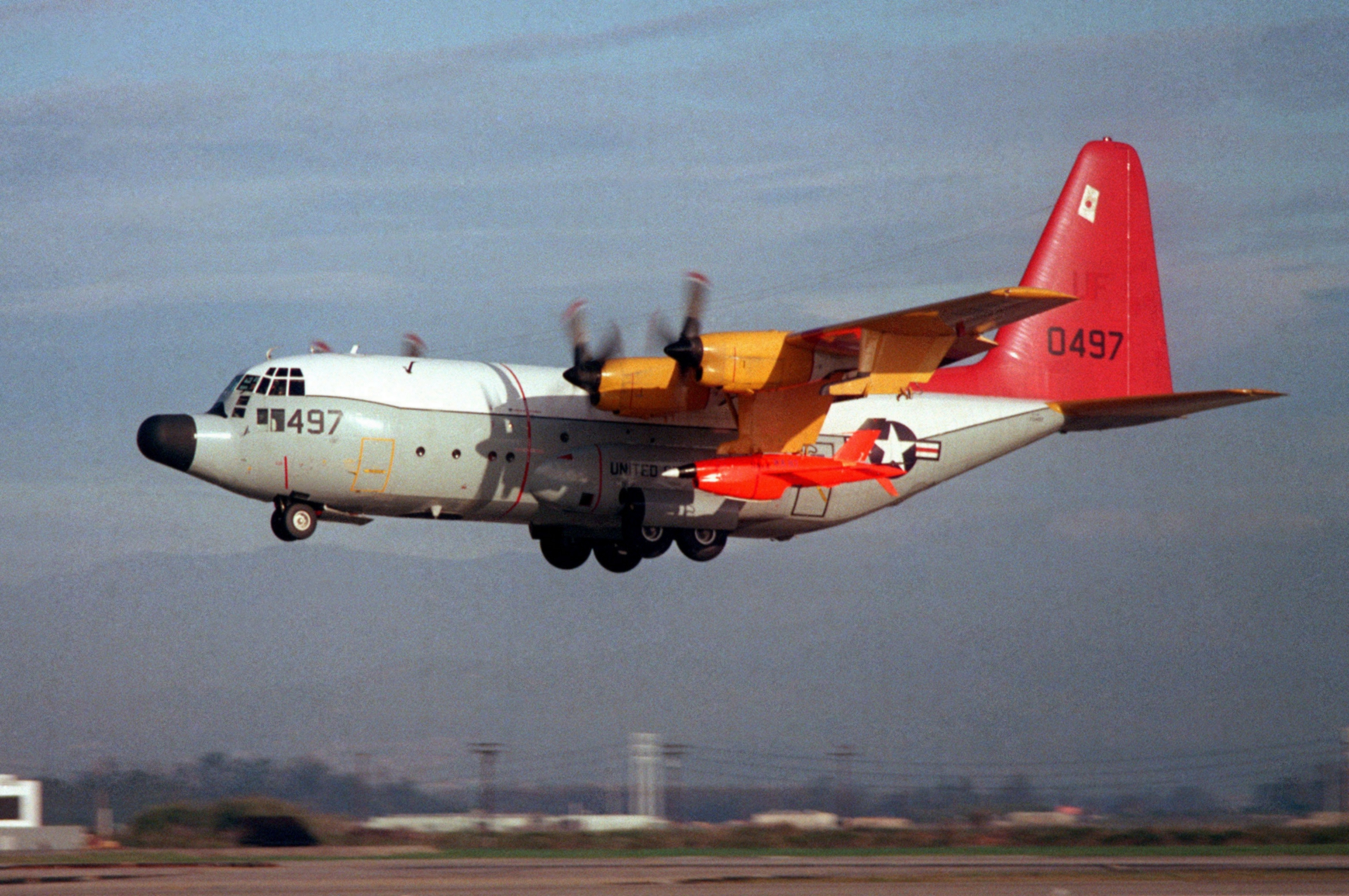 A U.S. Navy Lockheed DC-130A Hercules (BuNo 570497) assigned to Composite Squadron VC-3 Bloodhounds at Naval Air Station Point Mugu, California (USA), on 27 January 1983, carrying BQM-34S Firebee drones. This aircraft had been delieverd to the U.S. Air Force as an C-130A-45-LM in 1957 and was retired on 8 January 1979. It was transferred to the U.S. Navy on 13 March 1979 and converted to a DC-130A drone control aircraft. Curiously it kept its USAF serial number and was not assigned a regular USN BuNo. It became the oldest C-130 in US military service and was even deployed to Iraq in 2003. It was finally retired to the AMARC as 2G0055 on 27 June 2007.